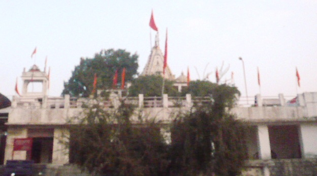 This is a Temple in Ujjain,Madhya Pradesh,India, known as 'Mangalnath Temple'.It is supposed to be the temple of planet 'Mangal' a deity.This is situated on Ujjain-agar road about 7 kms. away from Ujjain.